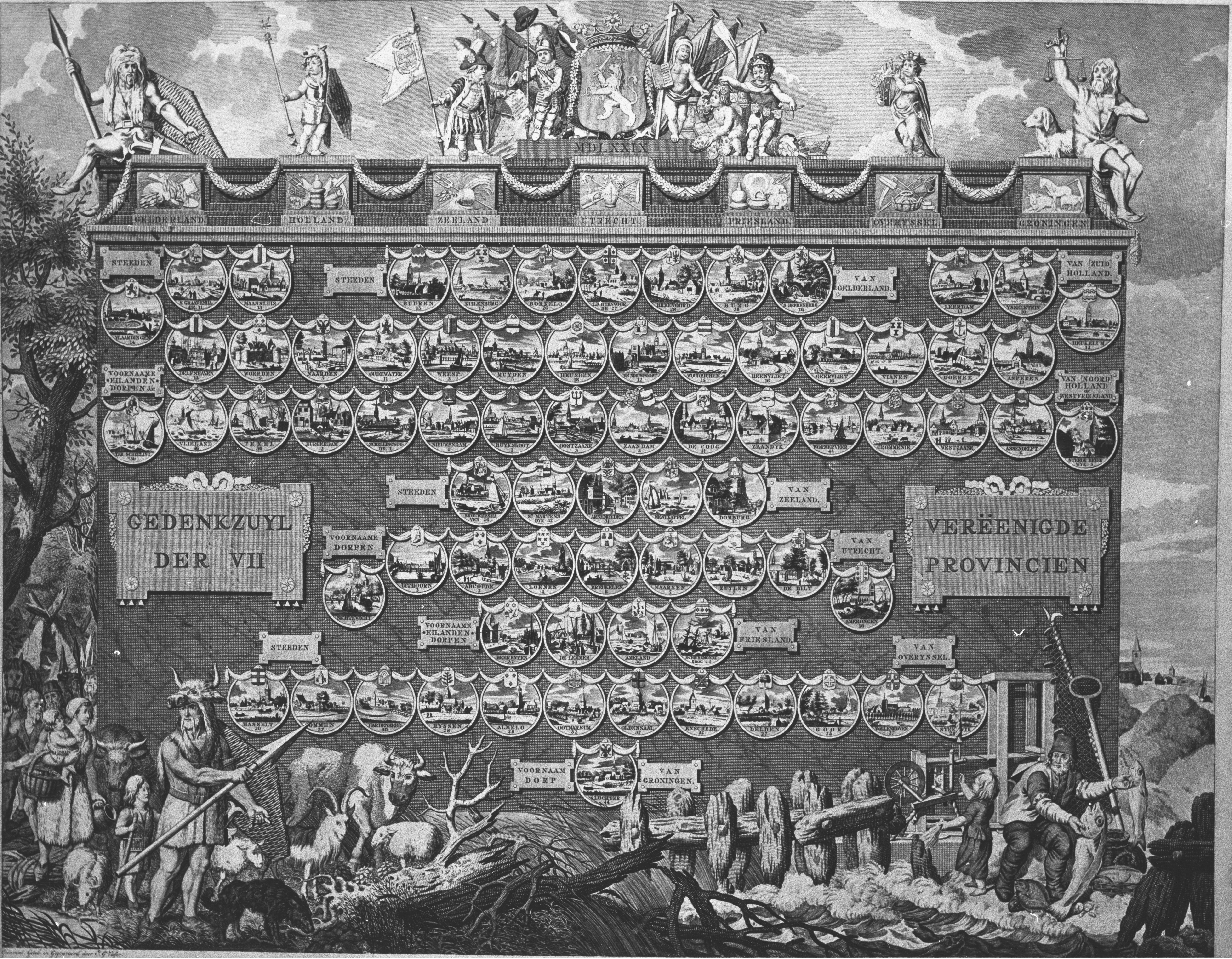 Gedenkzuyl der VII verëenigde Nederlanden